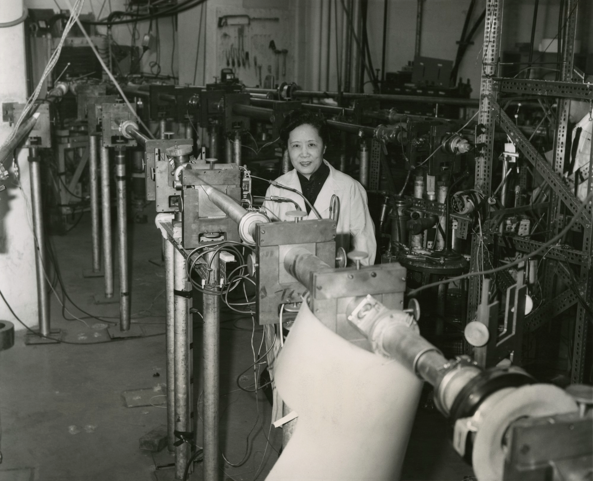 Subject: Wu, C. S (Chien-shiung) 1912-1997 Columbia University Type: Black-and-white photographs Date: 1963 3/20/1963 Topic: Physics Local number: SIA Acc. 90-105 [SIA2010-1507] Summary: In 1963, Chien-Shiung Wu (1912-1997), professor of physics at Columbia University, was already considered one of the world's foremost experimental physicists. Her experiments, with the aid of associates Y.K. Lee and L.W. Mo, confirmed the theory of sub-atomic behavior known as "weak interaction Cite as: Acc. 90-105 - Science Service, Records, 1920s-1970s, Smithsonian Institution Archivess Persistent URL: Link to data base record Repository: Smithsonian Institution Archives